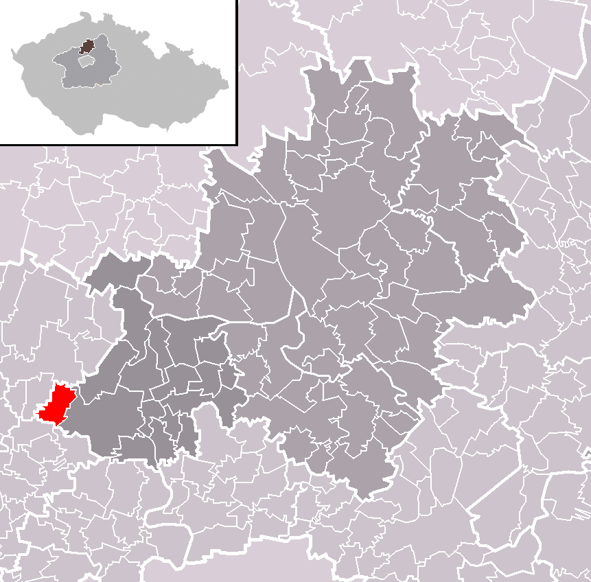 Location of Olovnice municipality within Mělník District and administrative area of Kralupy nad Vltavou as a Municipality with Extended Competence.